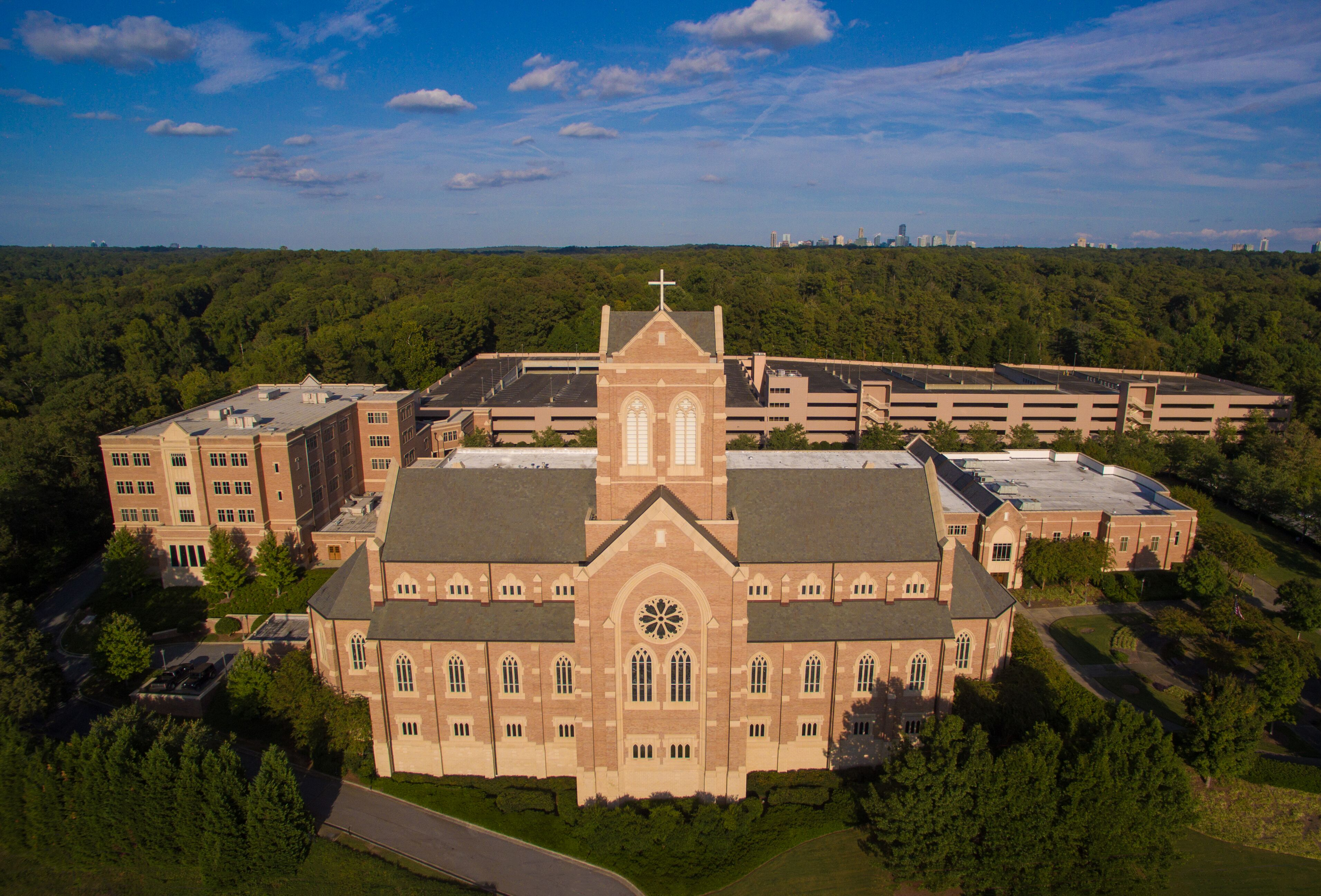 Church of the Apostles as viewed from across I75 to the front of the church